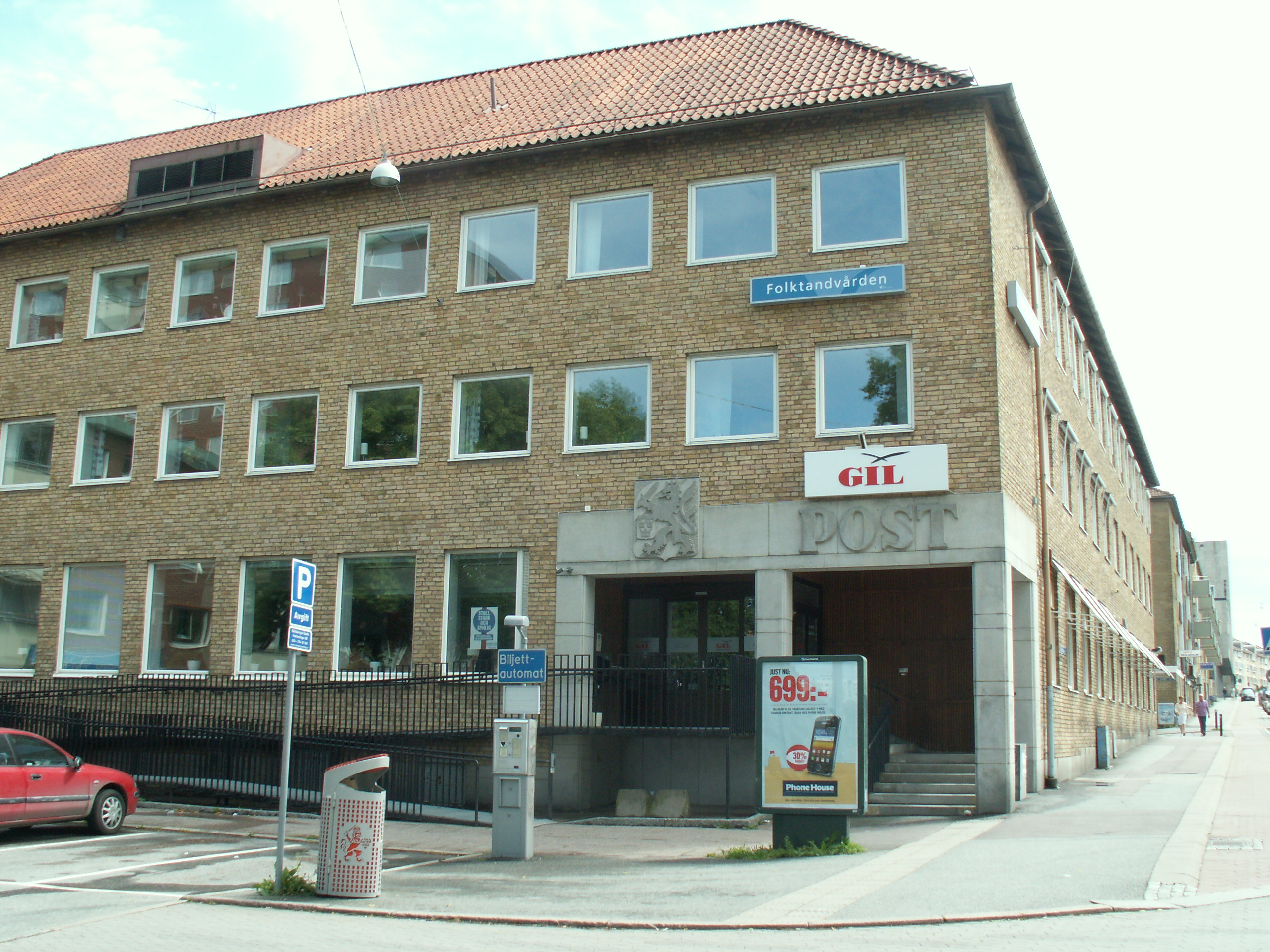 Former post office building at Jægerdorffsplatsen in Majorna, Göteborg.